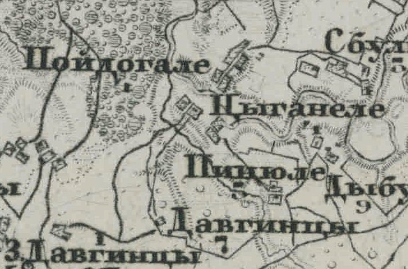 (Cigonaliai village. 1872)